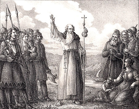 Captioned as "Ansgarius predikar Christna läran i Sverige", according to the source page. Etching by Hugo Hamilton, depticting the Archbishop of Hamburg-Bremen Ansgar the preaching Christianity to the heathen Swedes. Original image size approximately 17 x 22 cm.